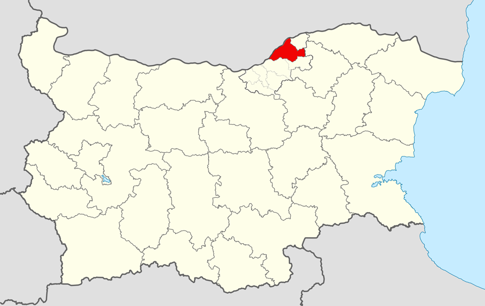 Location map of Ruse Municipality within Bulgaria and Ruse Province. Equirectangular projection, N/S stretching 130 %. Geographic limits of the map: N: 44.4° N S: 41.1° N W: 22.1° E E: 28.9° E